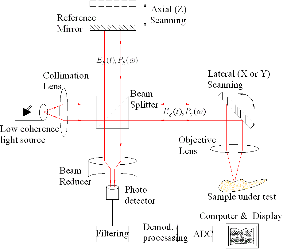 An image depicting a single point optical coherence tomography system.